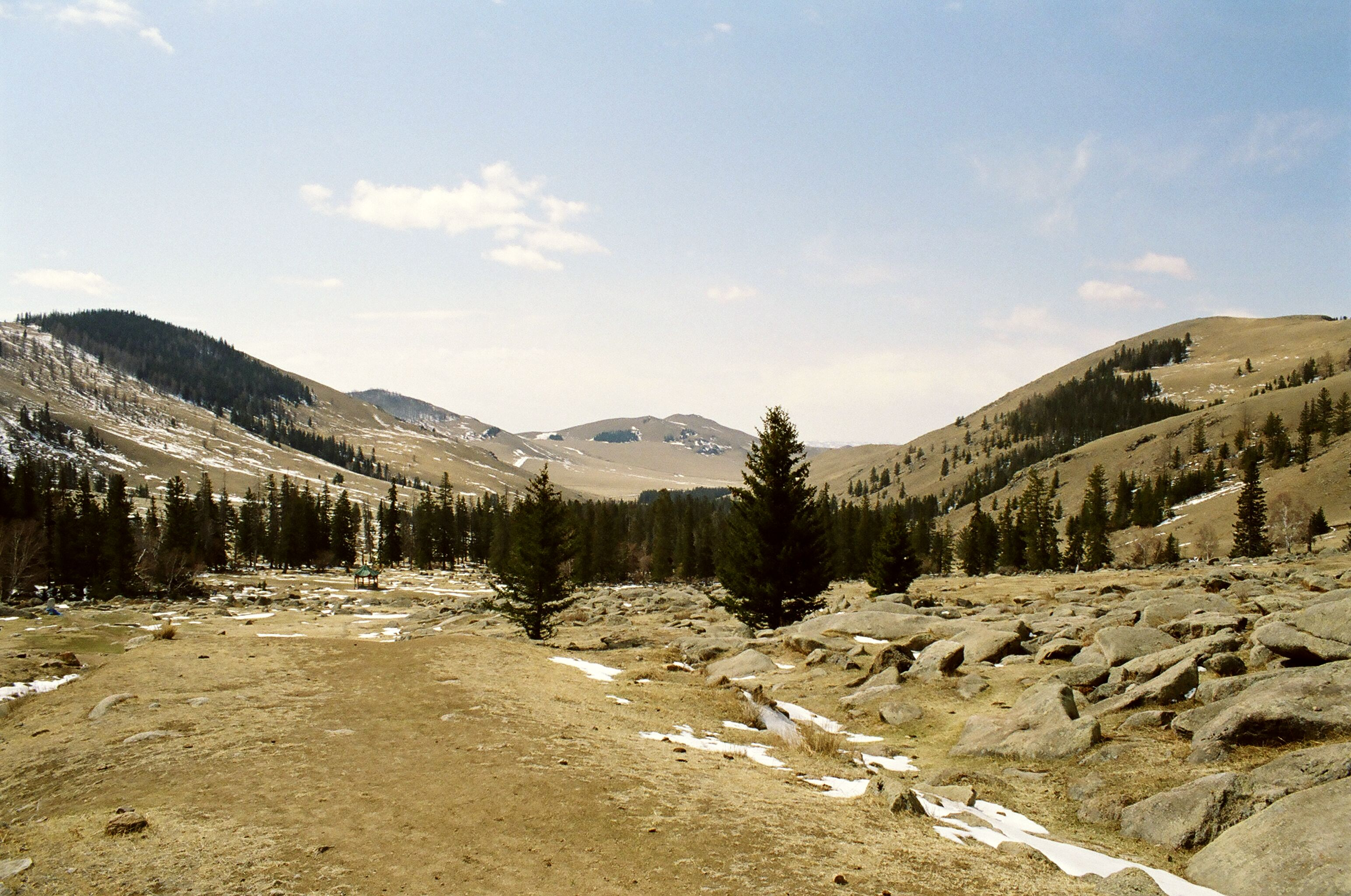 Picea obovata forest, Bogdkhan Uul Strictly Protected Area, Mongolia.